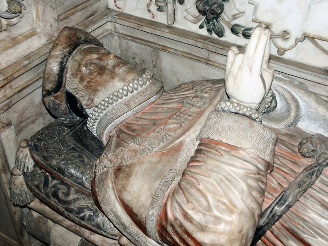 Interior of St Michael, Glentworth Effigy of Sir Christopher Wray, on his tomb.